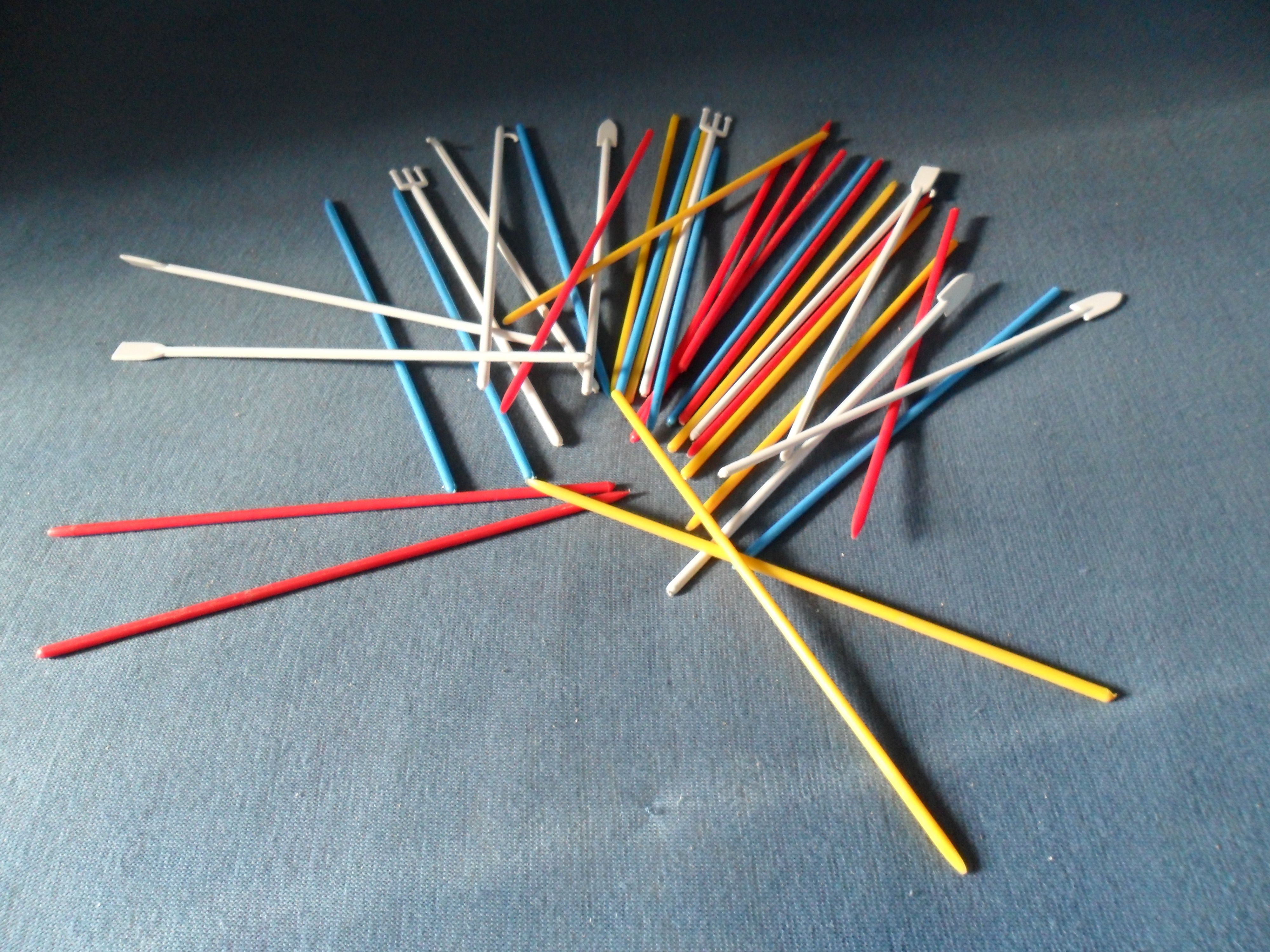 Pick-up sticks